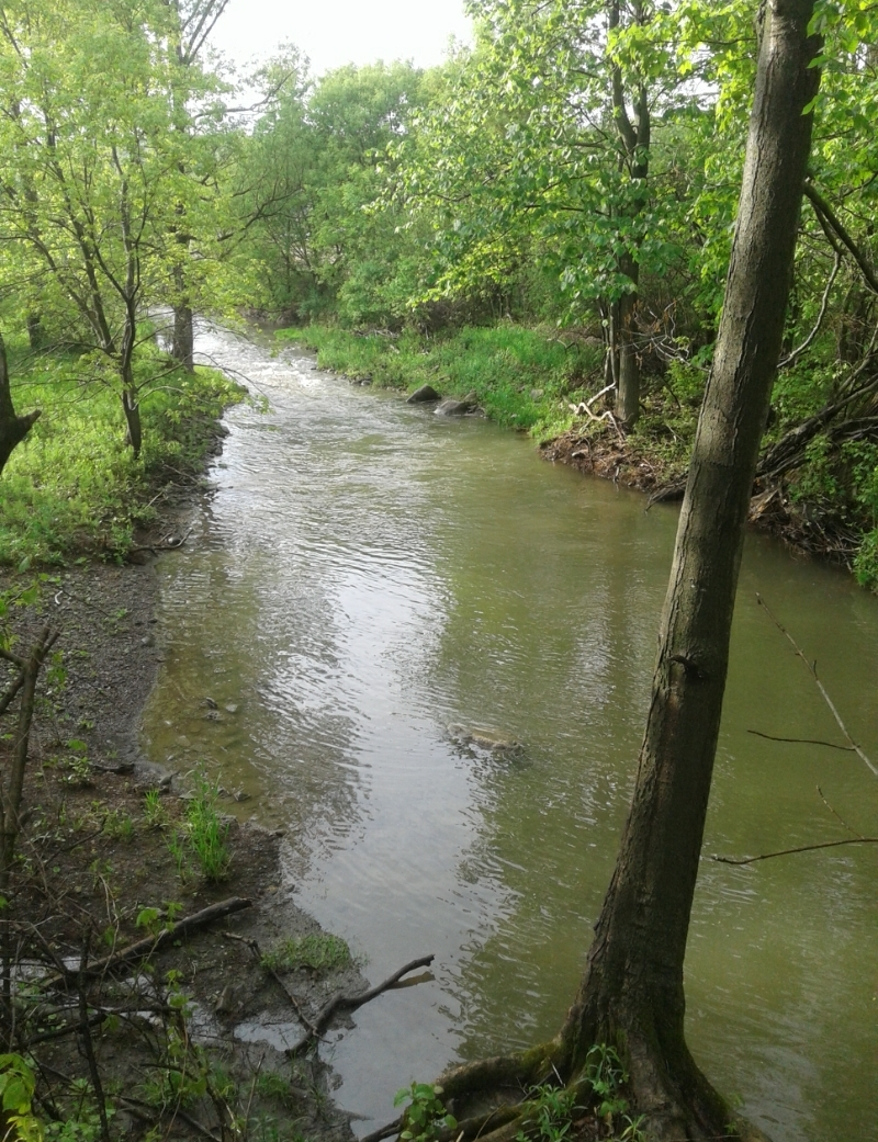 Canajoharie Creek off Mill Road, southwest of the hamlet of Sprout Brook. Taken May 23, 2019